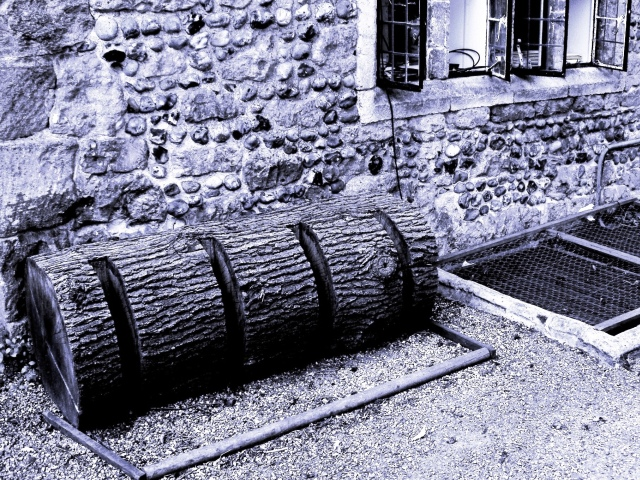 Low-tech bicycle rack at Bailiffscourt Hotel